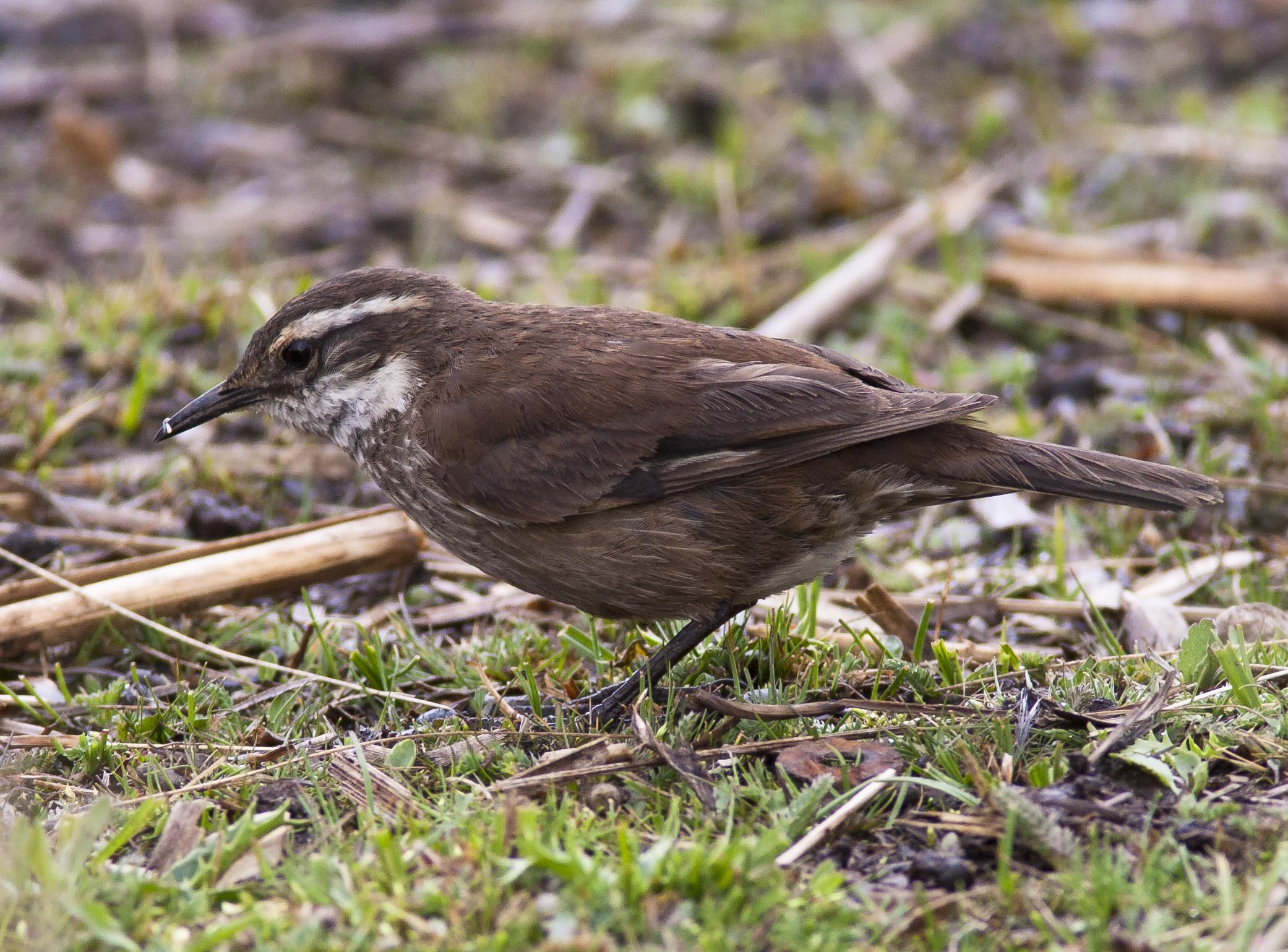 Olrog's Cinclodes